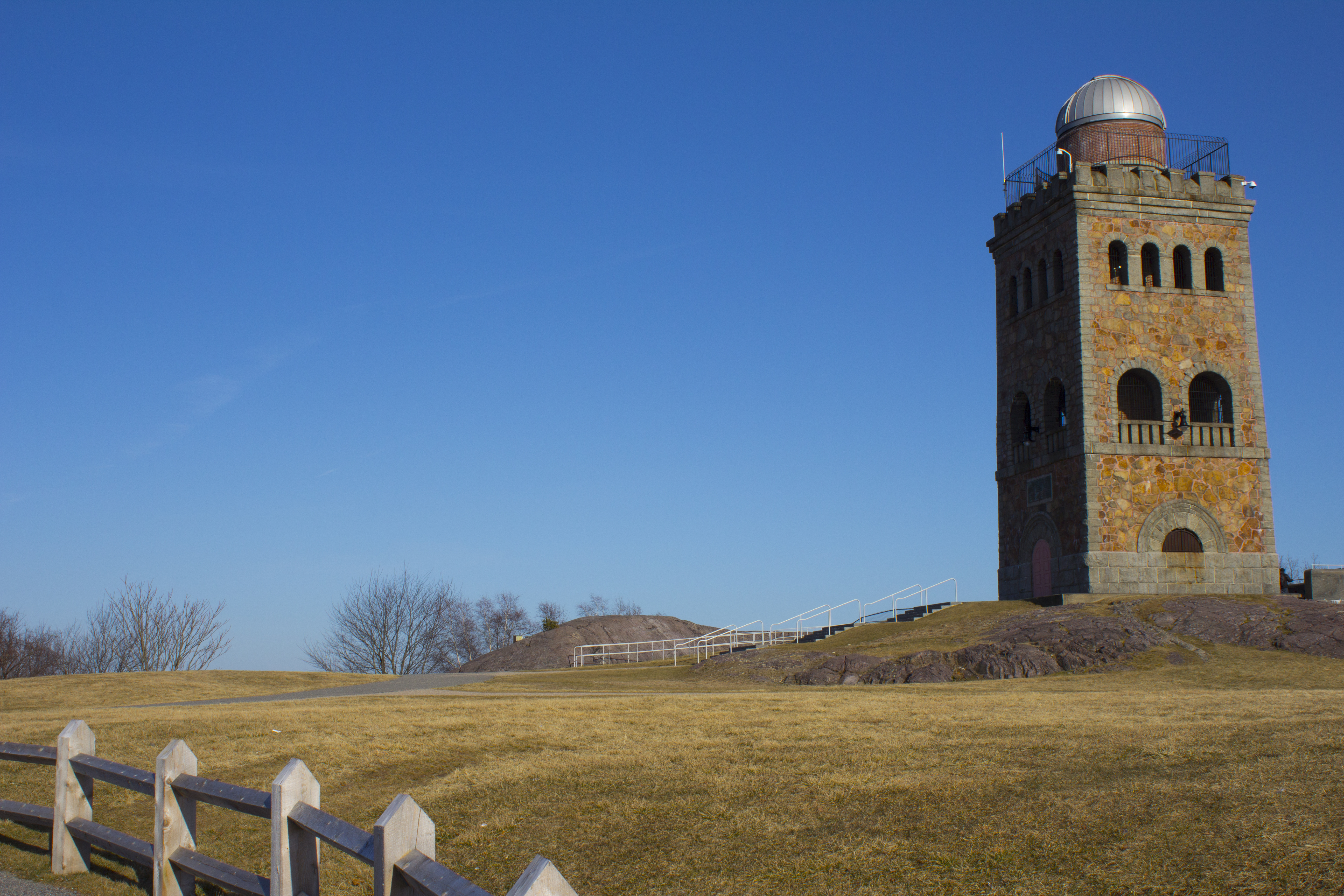 Taken on early 2012 photo excursion.